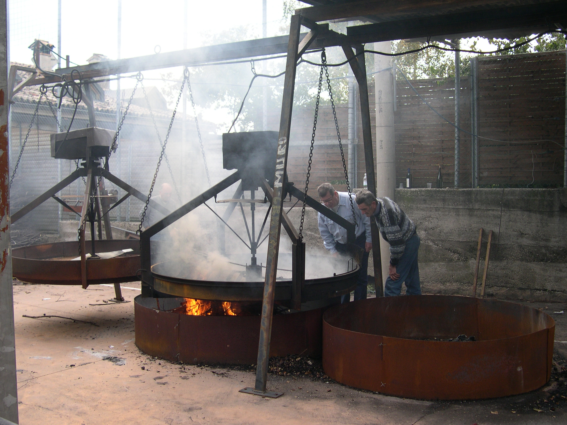 A BIG pan where men roast a huge amount of chestnuts